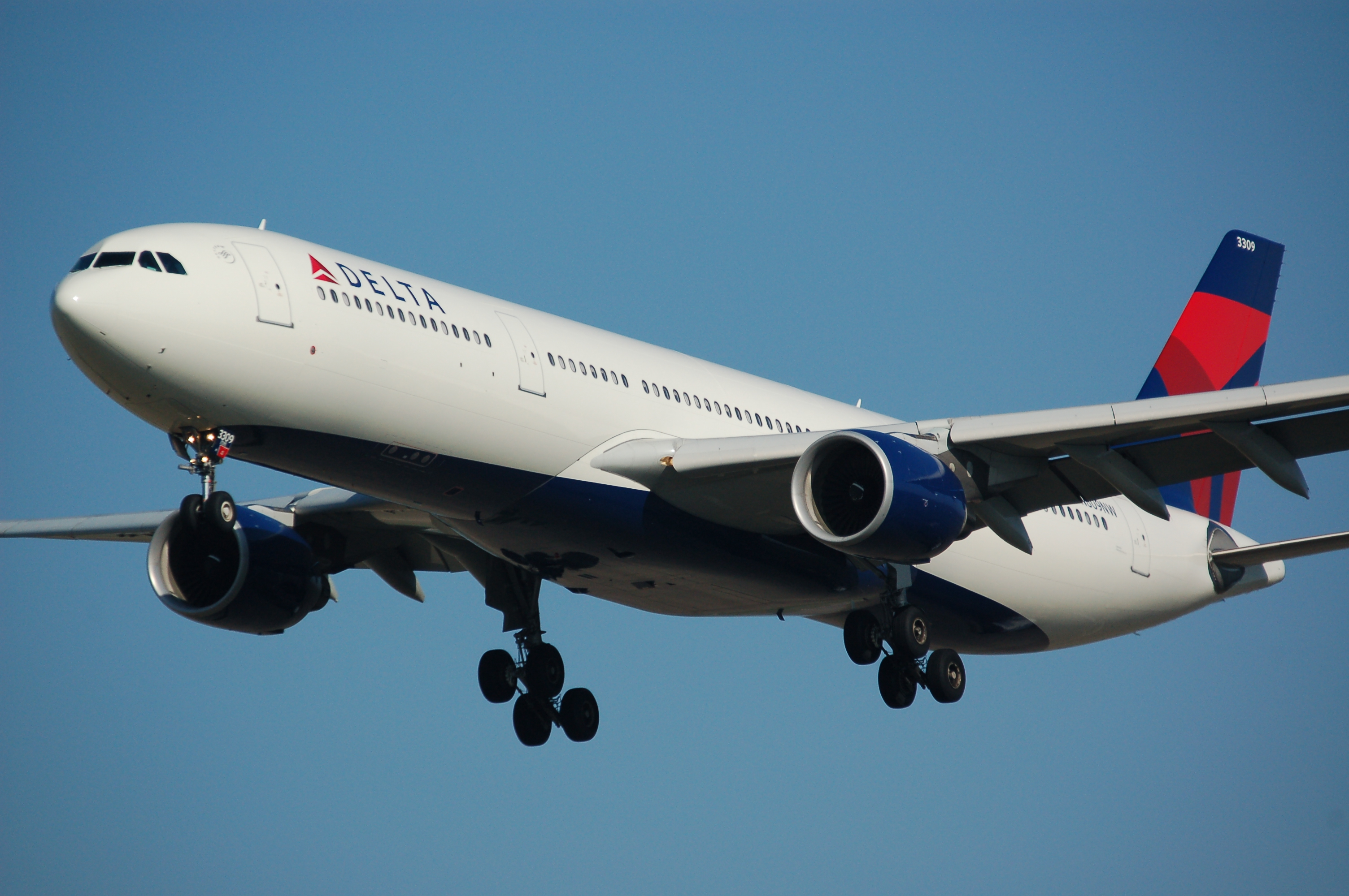 A Delta Air Lines Airbus A330-323E landing on runway 18C at Schiphol